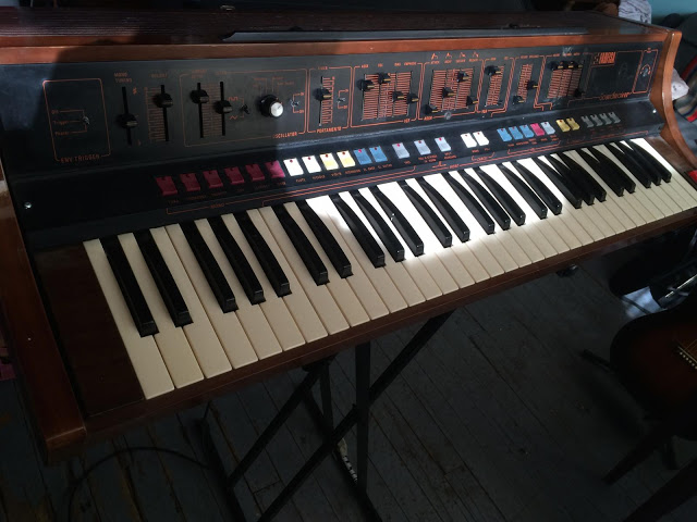 Overview of the 1979 Farfisa Soundmaker Synthesizer